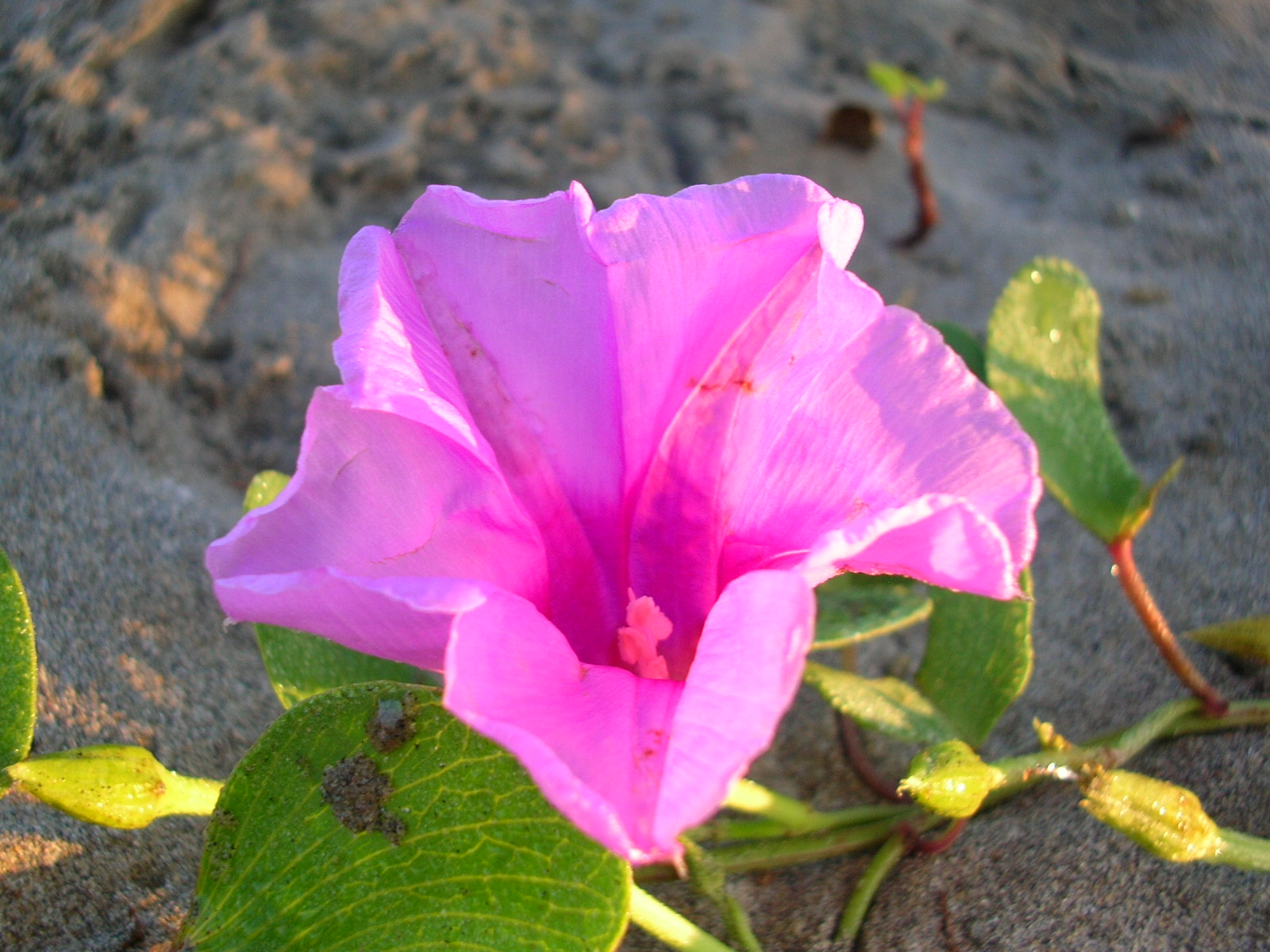 beach flower